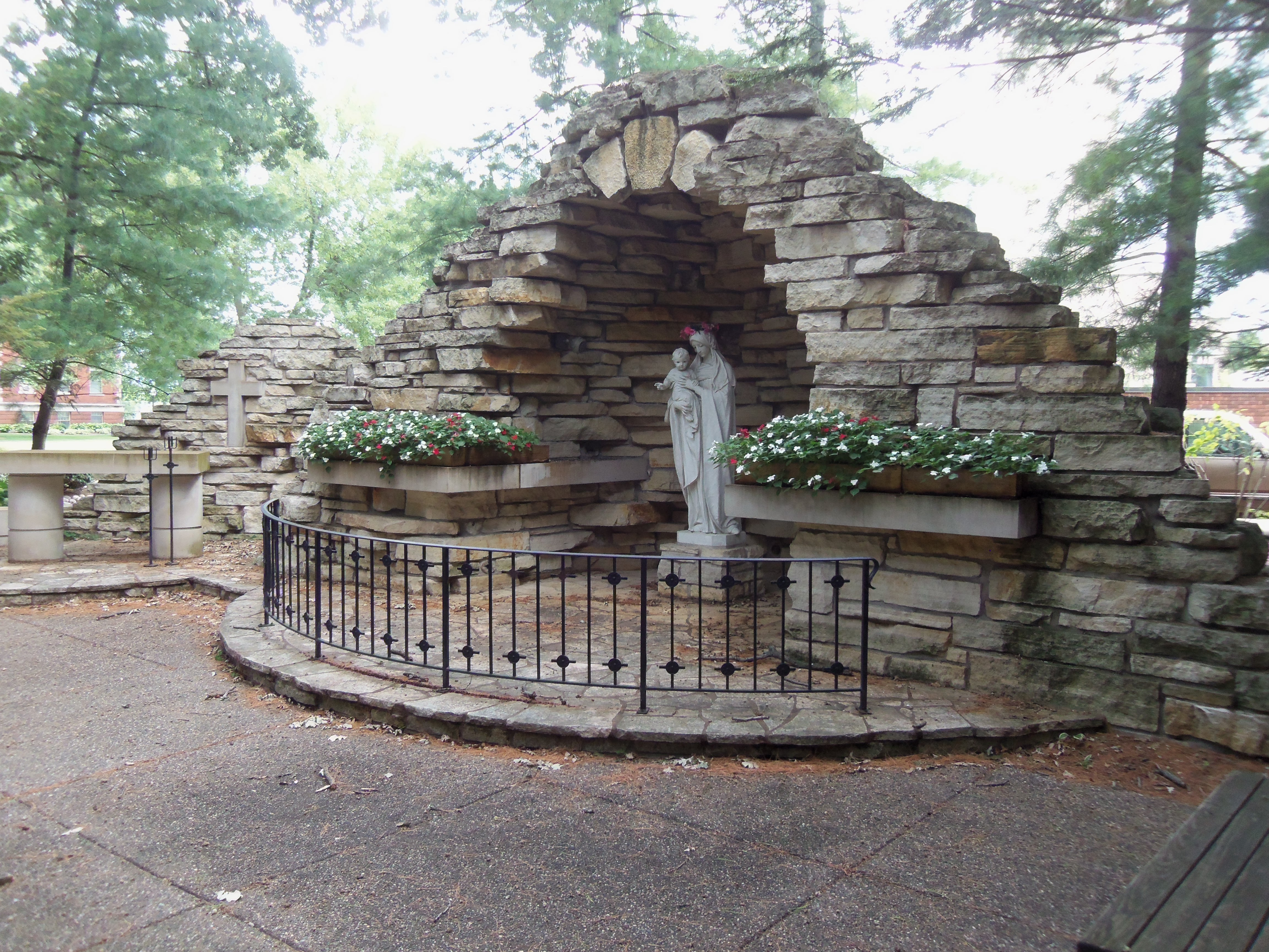 The grotto on the campus of St. Ambrose University in Davenport, Iowa.